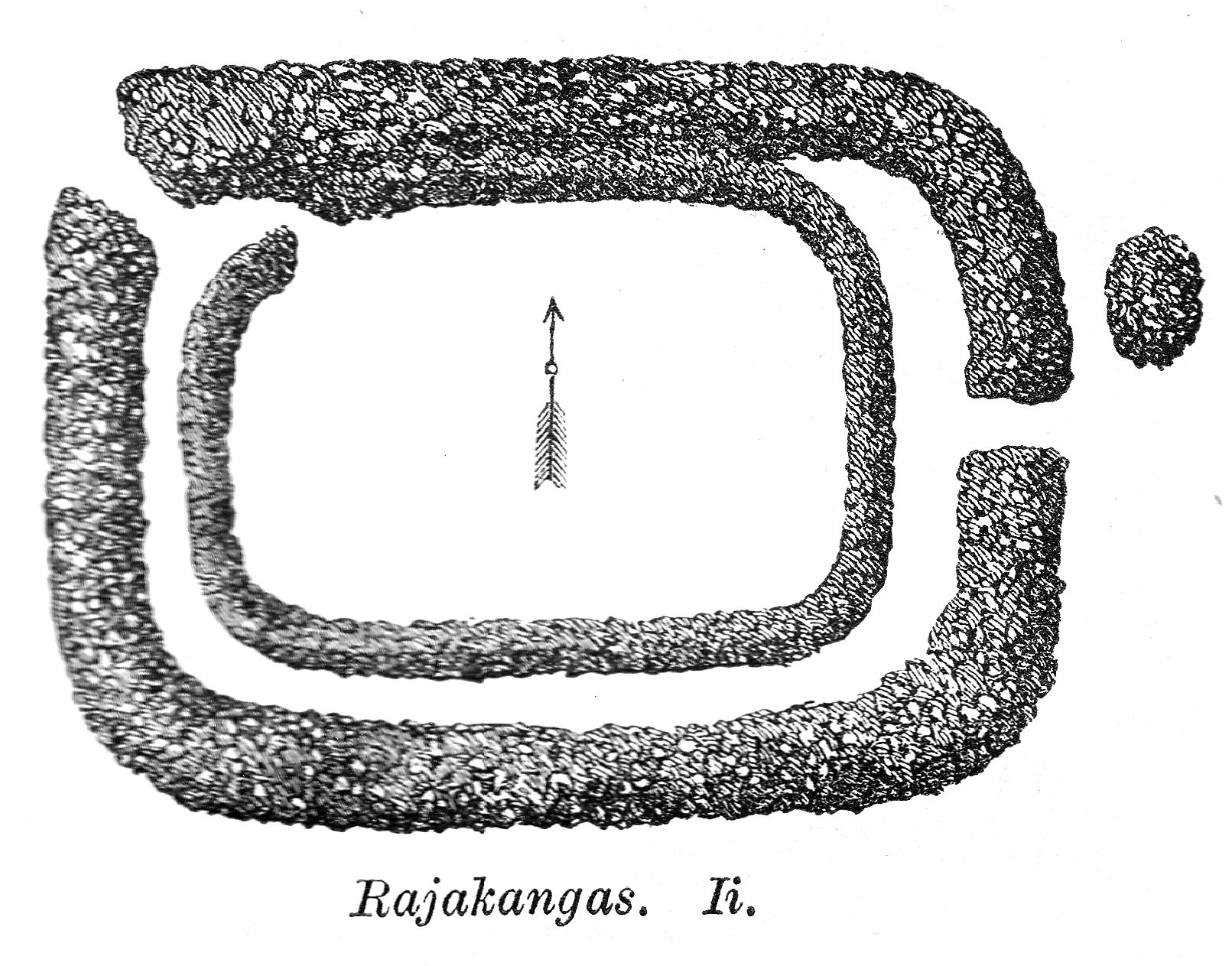 Drawing of a giant's church (neolithic stone structure) located in Rajakangas, Oulu, Finland. (A.H. Snellman, 1887)